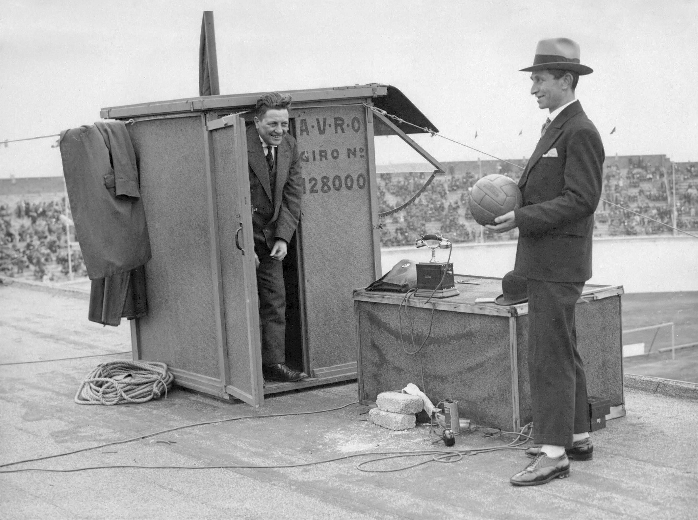 Hartog Hollander (Han) (1886-1943) Radio-Sportverslaggever bij de Algemene Vereniging Radio-Omroep (A.V.R.O.). Op de foto rechts. 4 mei 1930